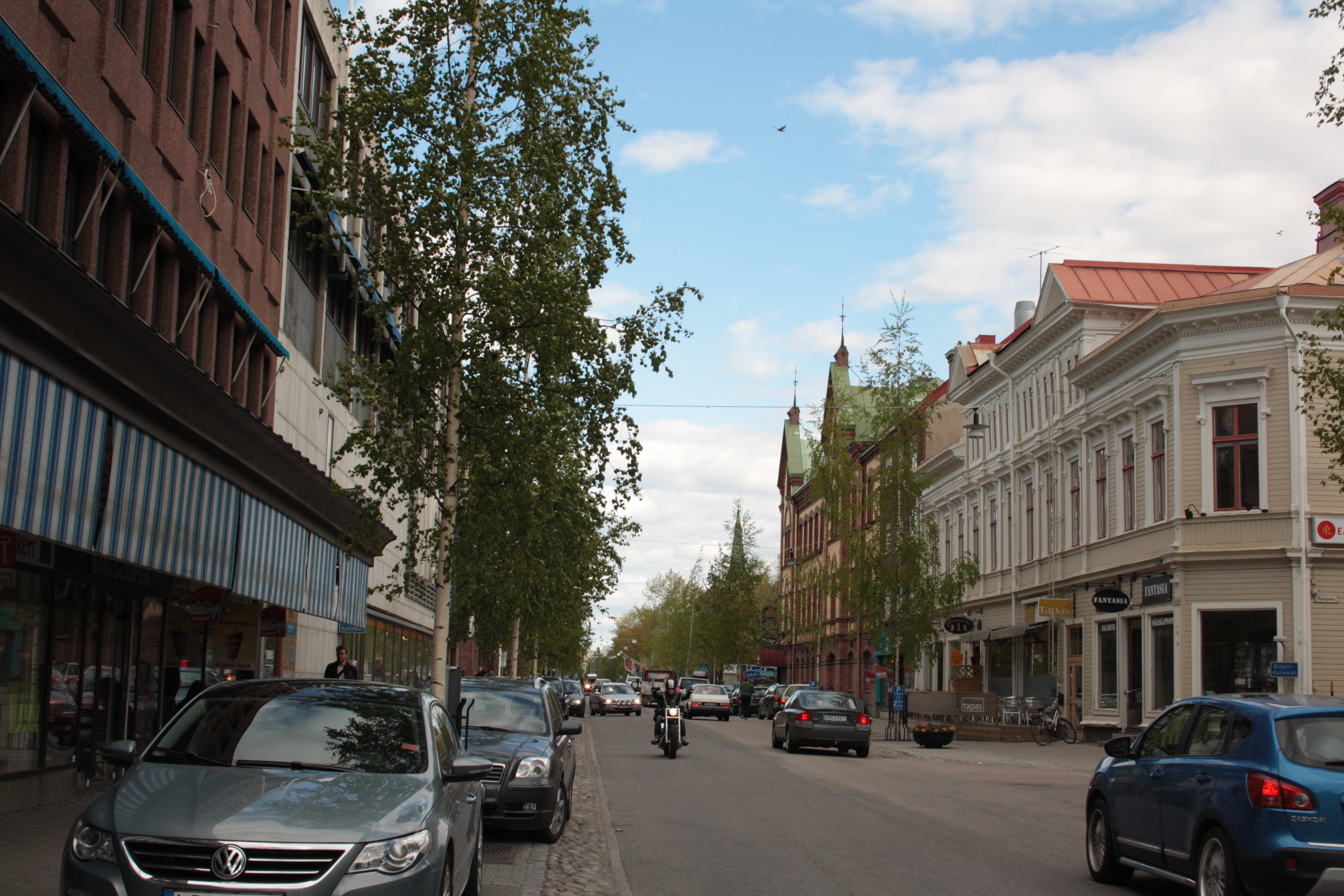 Storgatan (Main street) in the center of Umeå, Sweden